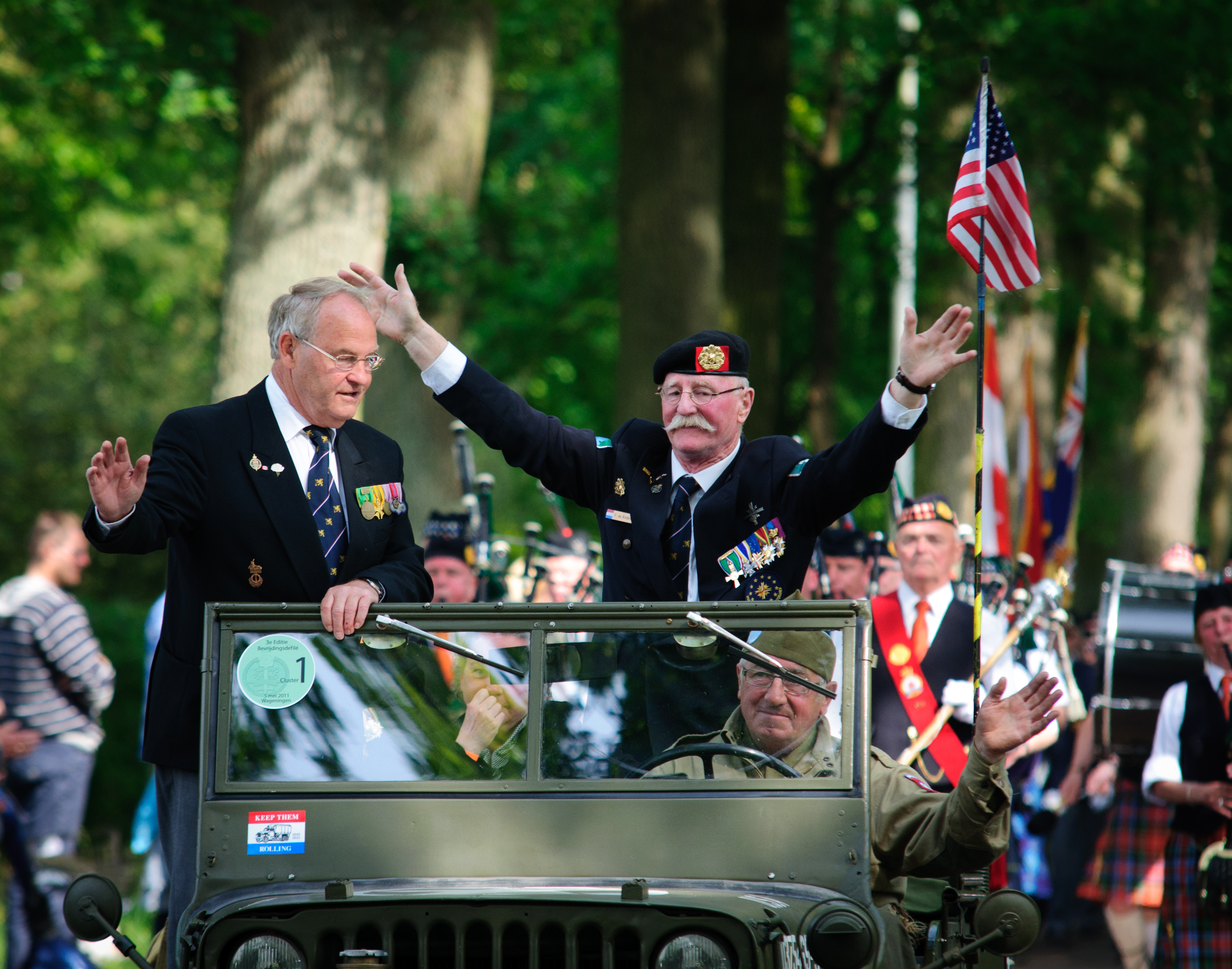 5th of may liberation parade Wageningen